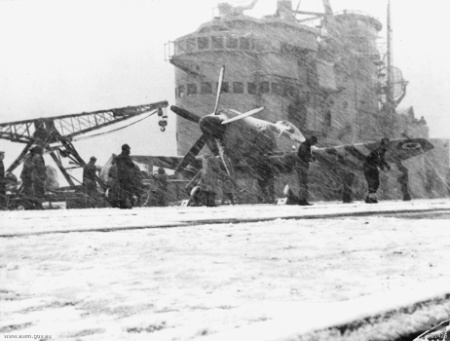 Sailors working on a Sea Fury aircraft on the deck of HMAS Sydney during a snow storm during the ship's service off Korea in the Korean War